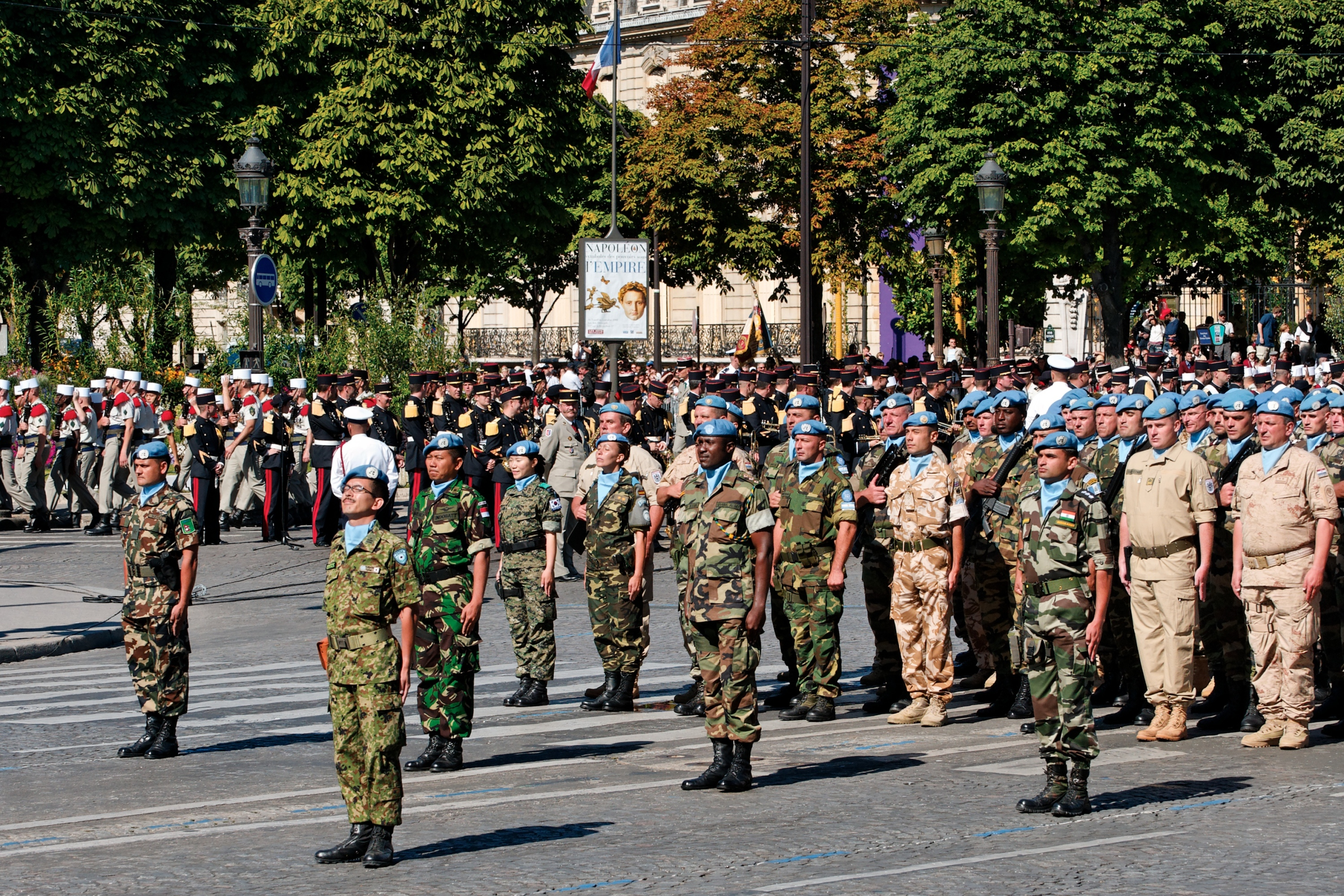 The special UN battalion during the Bastille Day 2008 military parade on the Champs-Élysées, Paris.